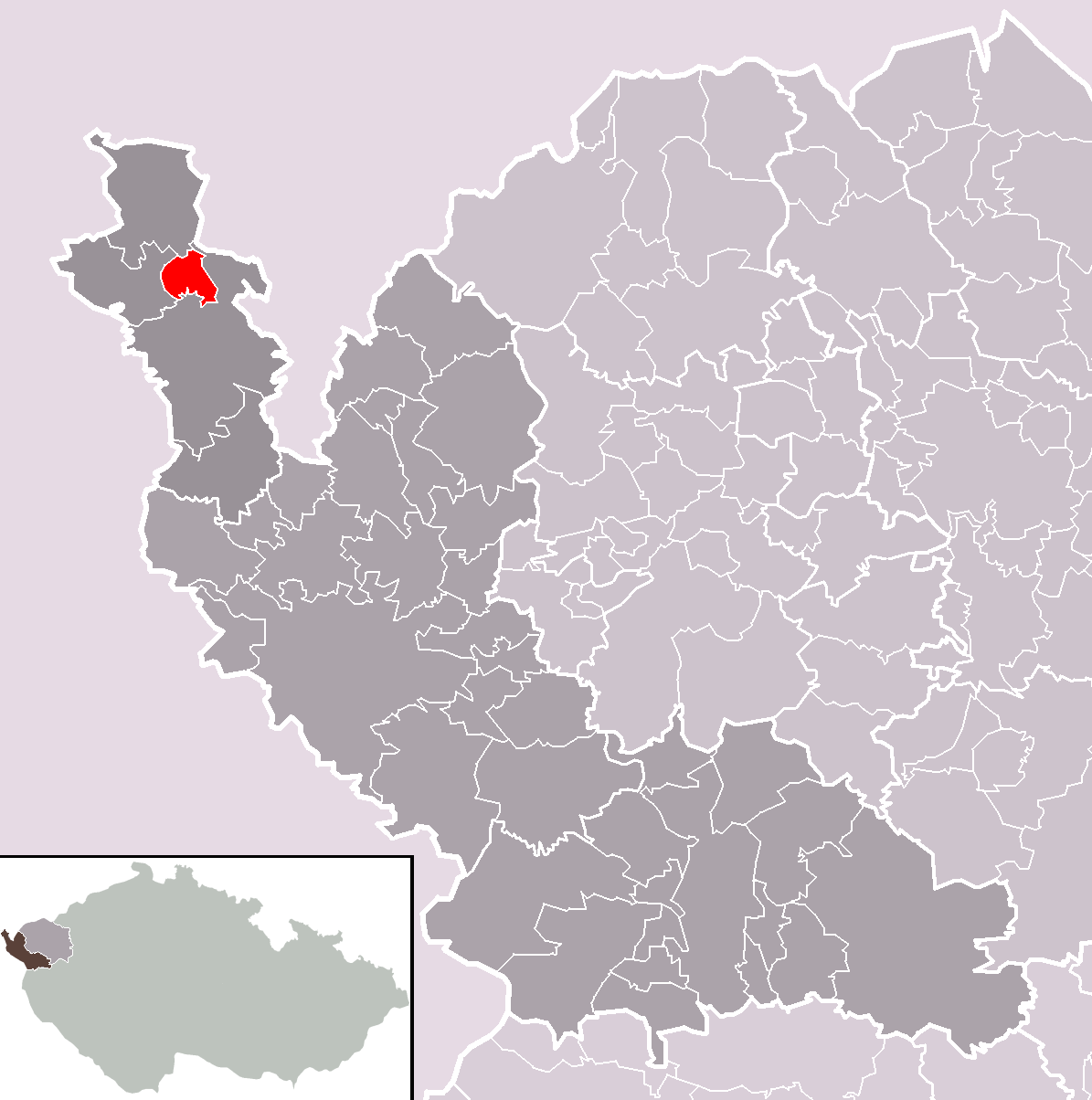 Location of Podhradí municipality within Cheb District and administrative area of Aš as a Municipality with Extended Competence.